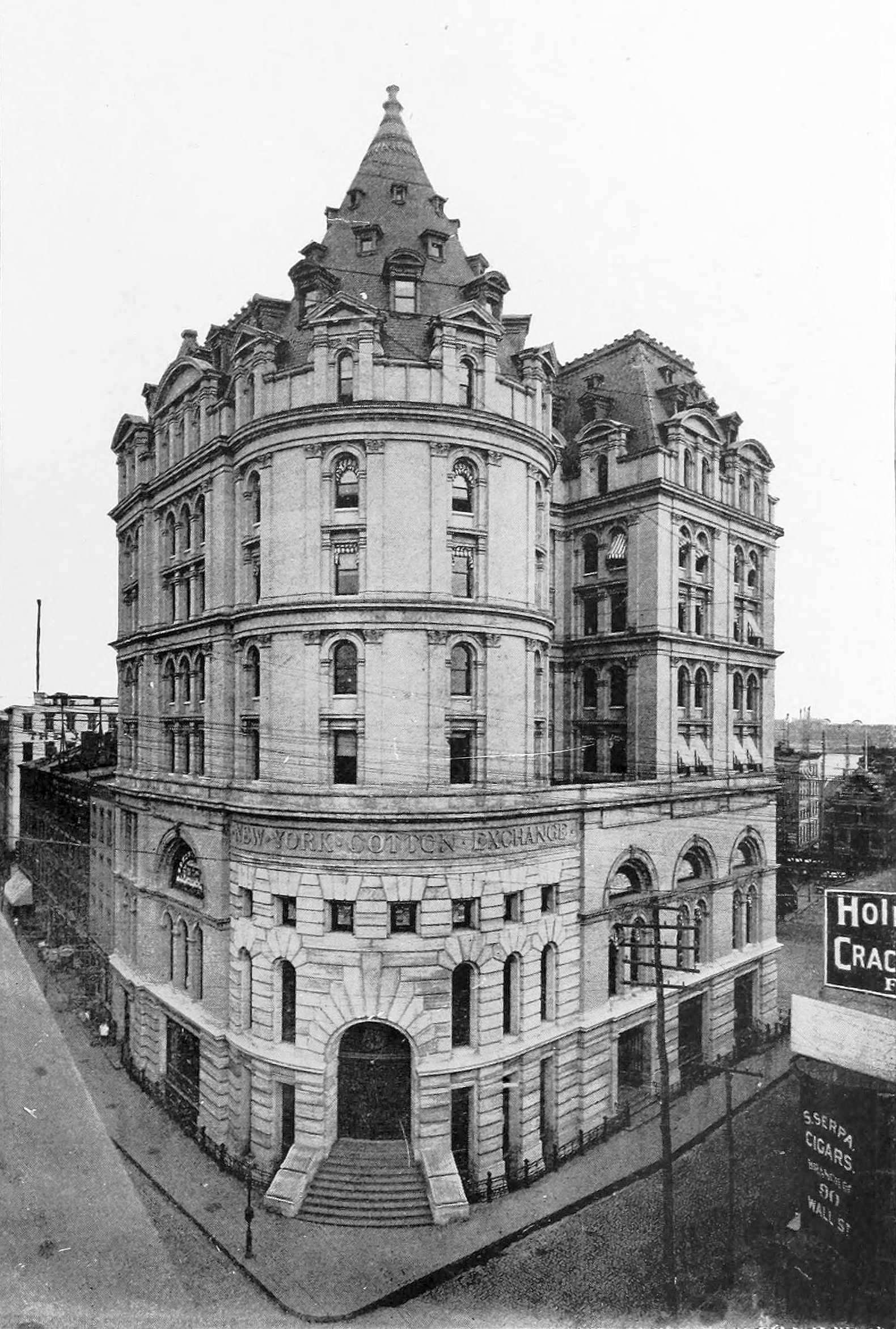 New York Cotton Exchange. Title: A history of real estate, building and architecture in New York City during the last quarter of a century Year: 1898 (1890s) Authors: Durst, Seymour B., 1913-, former owner. NNC Real Estate Record Association Union League Club (New York, N.Y.), former owner. NNC Subjects: Real estate business Building Architecture Publisher: New York : Record and guide Text Appearing Before Image: ' Text Appearing After Image: 574 A HISTORY OF REAL ESTATE